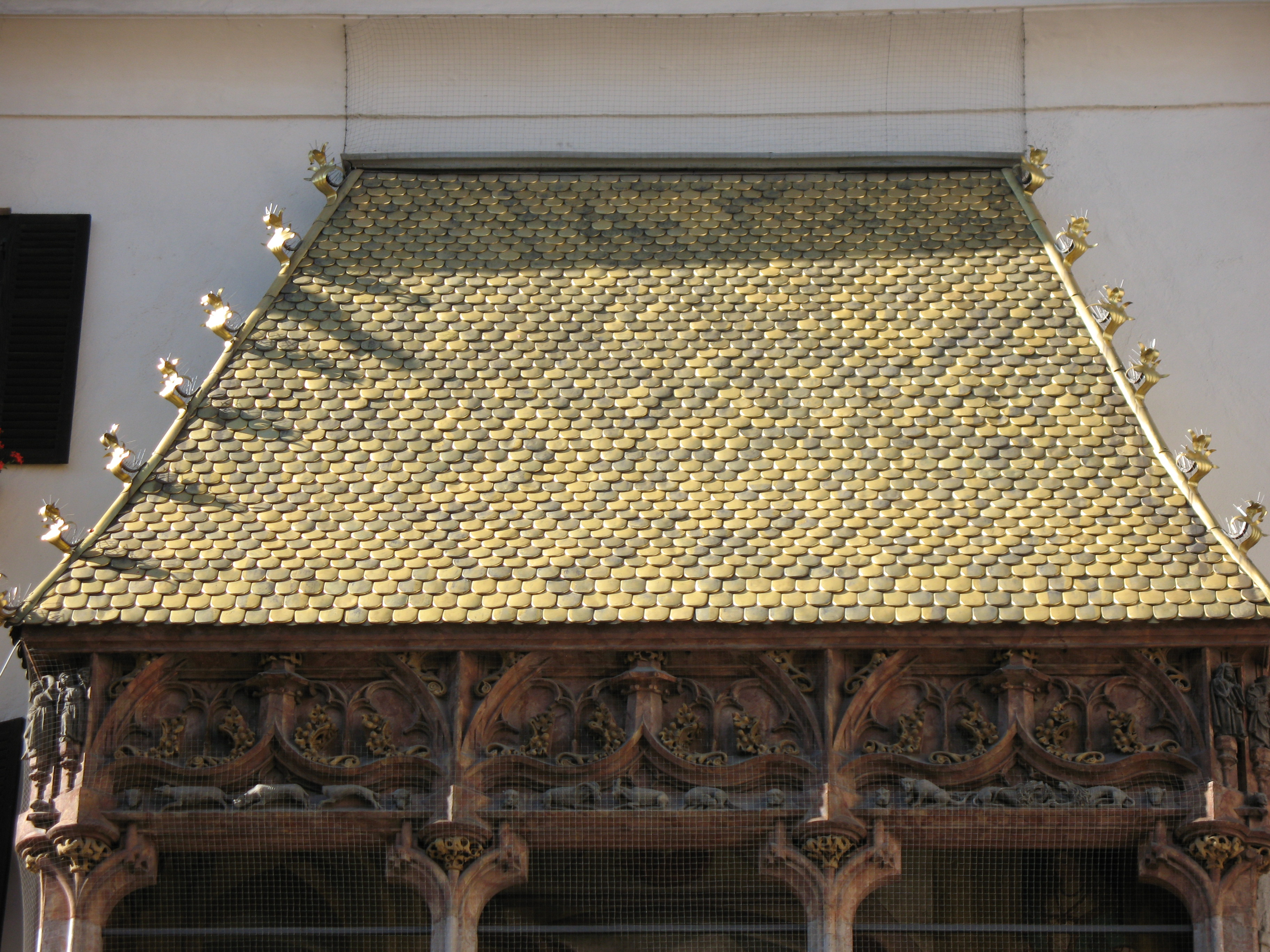 Golden Roof, Innsbruck, Austria